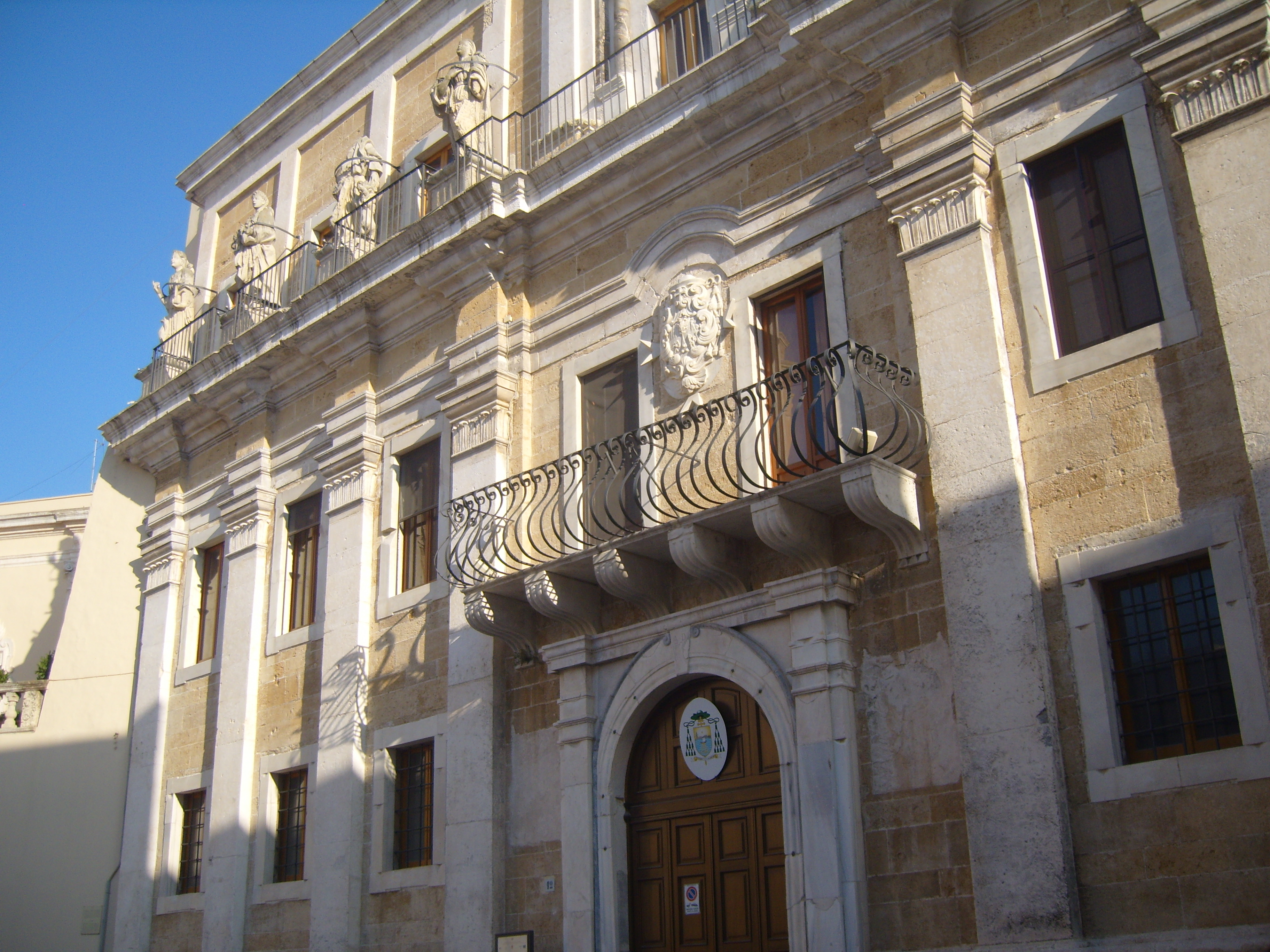 Archbishop's Seminar Palace in Brindisi